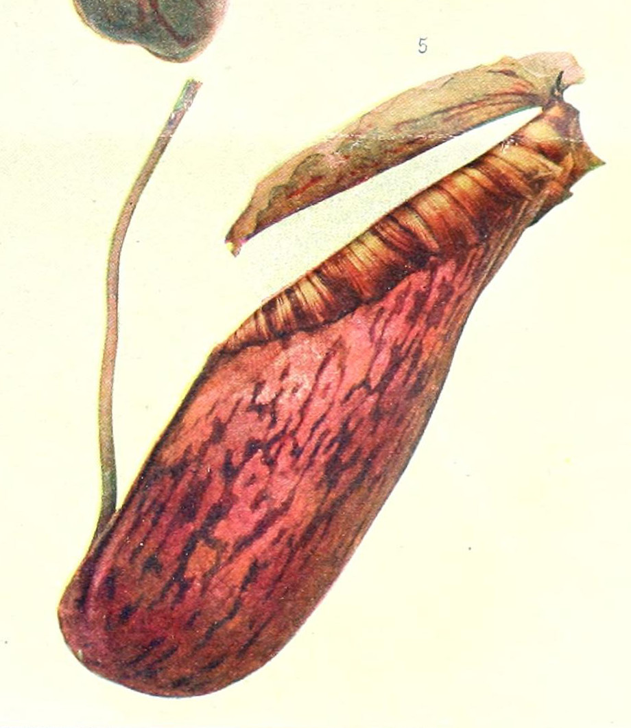 Illustration of "Nepenthes northiana pulchra" from a 1903 article by R. Jarry-Desloges.